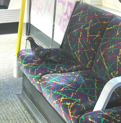 From my London Underground Tube Diary .